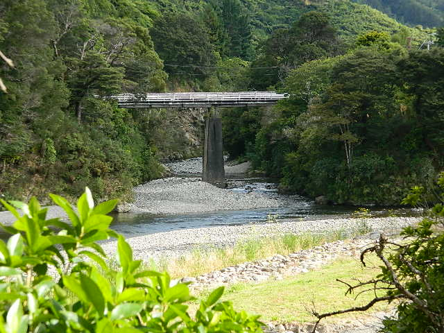 Andrews Bridge, Birchville, Upper Hutt, New Zealand as it stood in February 2014. This bridge crosses the Akatarawa River just upstream of its confluence with the Hutt River and provides access from Akatarawa Road to Bridge Road. In the foreground the Hutt River flows from right to left. Taken from the picnic area on Akatarawa Road near the Tea Shelter.